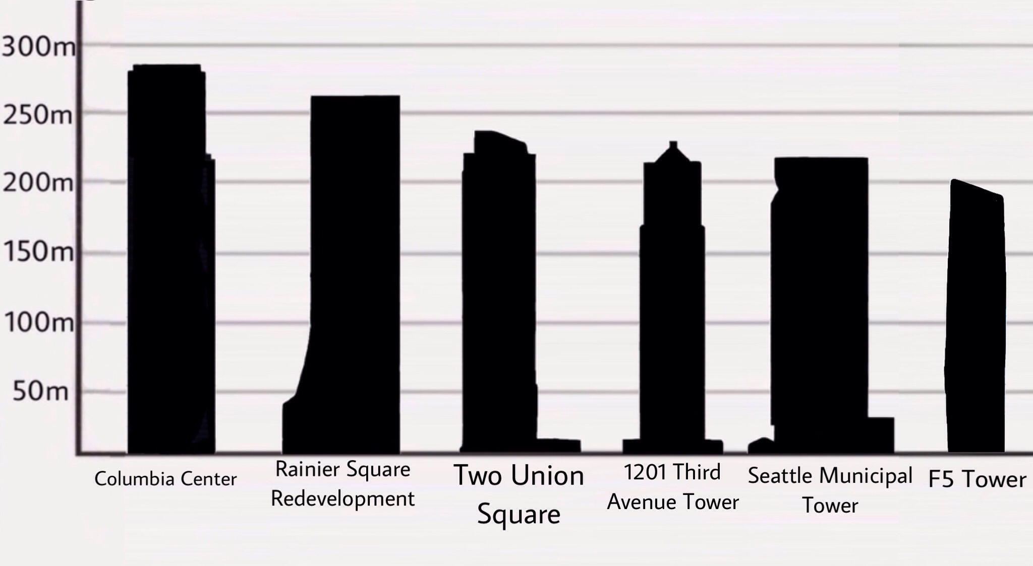 A comparison of the six tallest buildings in Seattle.